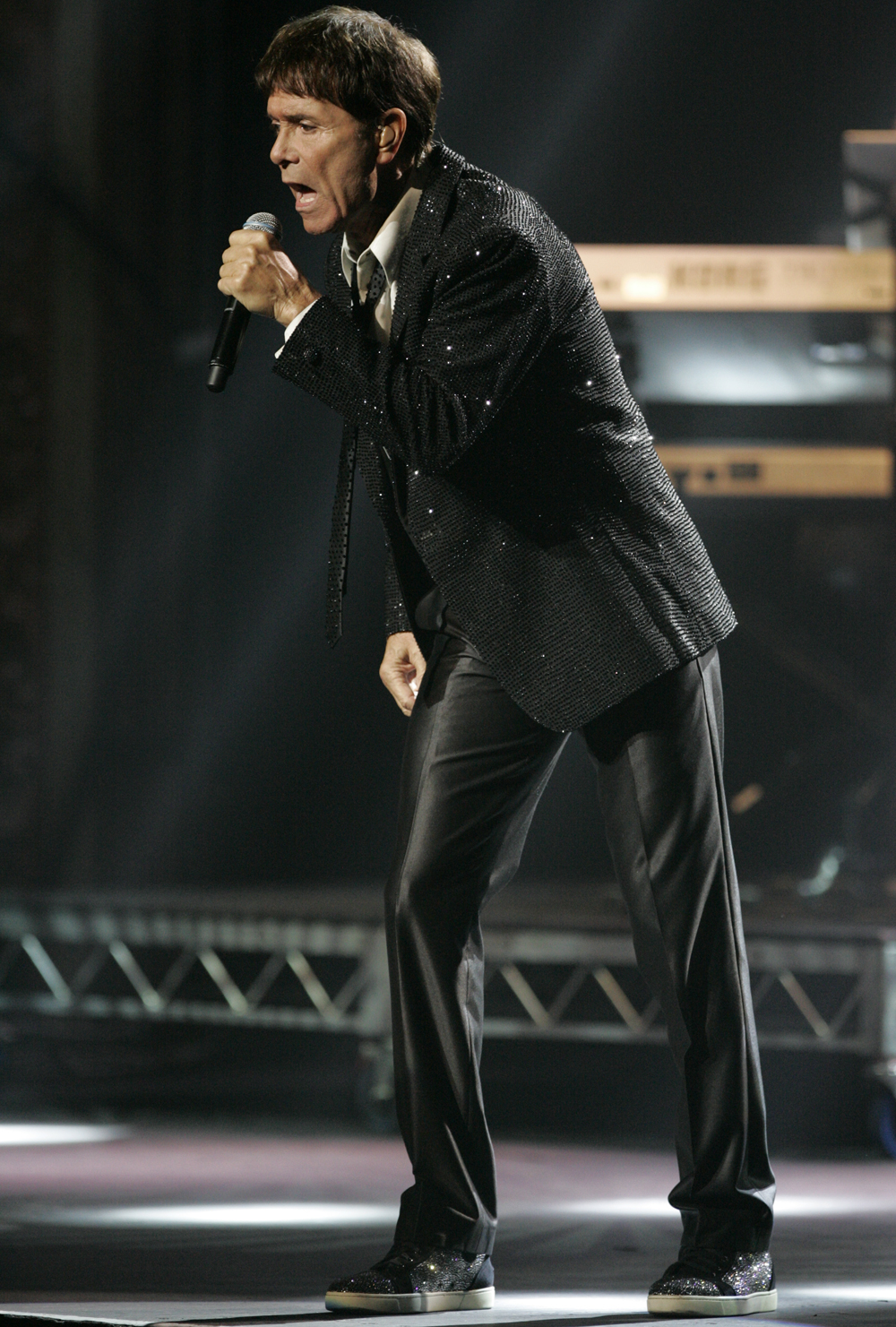 Cliff Richard performs at State Theatre; Sydney, Australia.